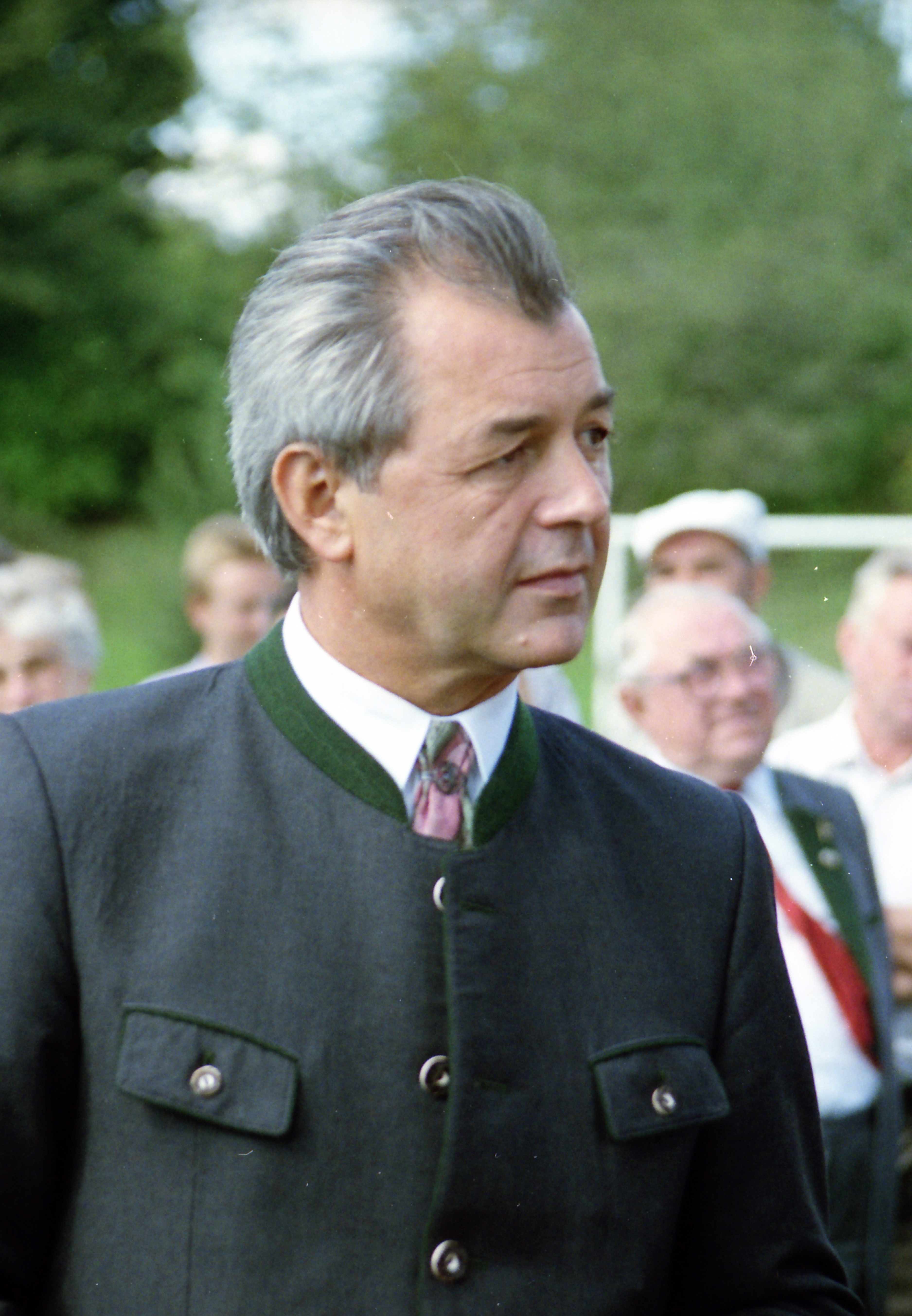 Josef Riegler, Styria